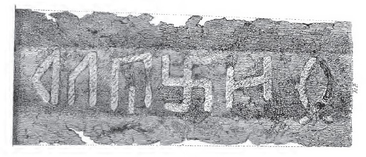 Detail of a runic inscription on a Viking sword found in a barrow in Sæbø, Hoprekstad, Norway in 1825. The inscription reads right-to-left "Oh Þurmuþ" (Thurmuth owns me), with a swastika representing the syllable Thur (for Thor).